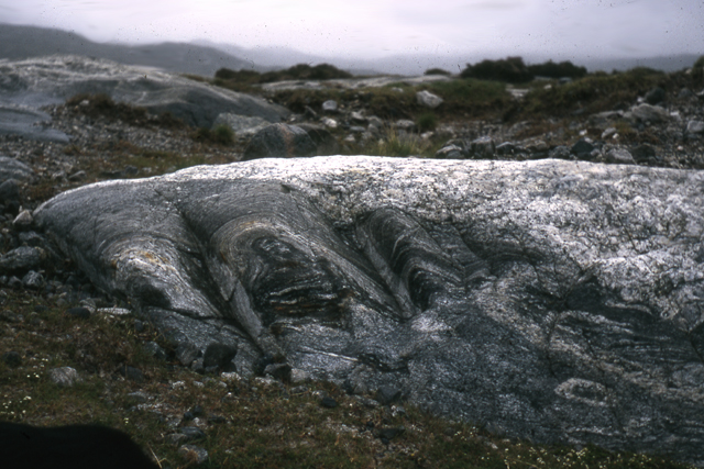 Folded gneiss, old path to Reinigeadal, Harris. Folded gneiss, old path to Reinigeadal, North Harris. This rock is located by the side of the footpath, which was the only way to the isolated community until a road was built, approaching it from the north. Gneiss is the predominant rock type in Harris, and was formed around two billion years ago. The folds resulted from a sequence of mountain building events in the Precambrian.